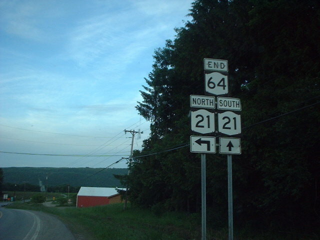 Sign assembly at the southern terminus of New York State Route 64 at New York State Route 21 in South Bristol. The actual junction where NY 64 ends is visible at bottom left.